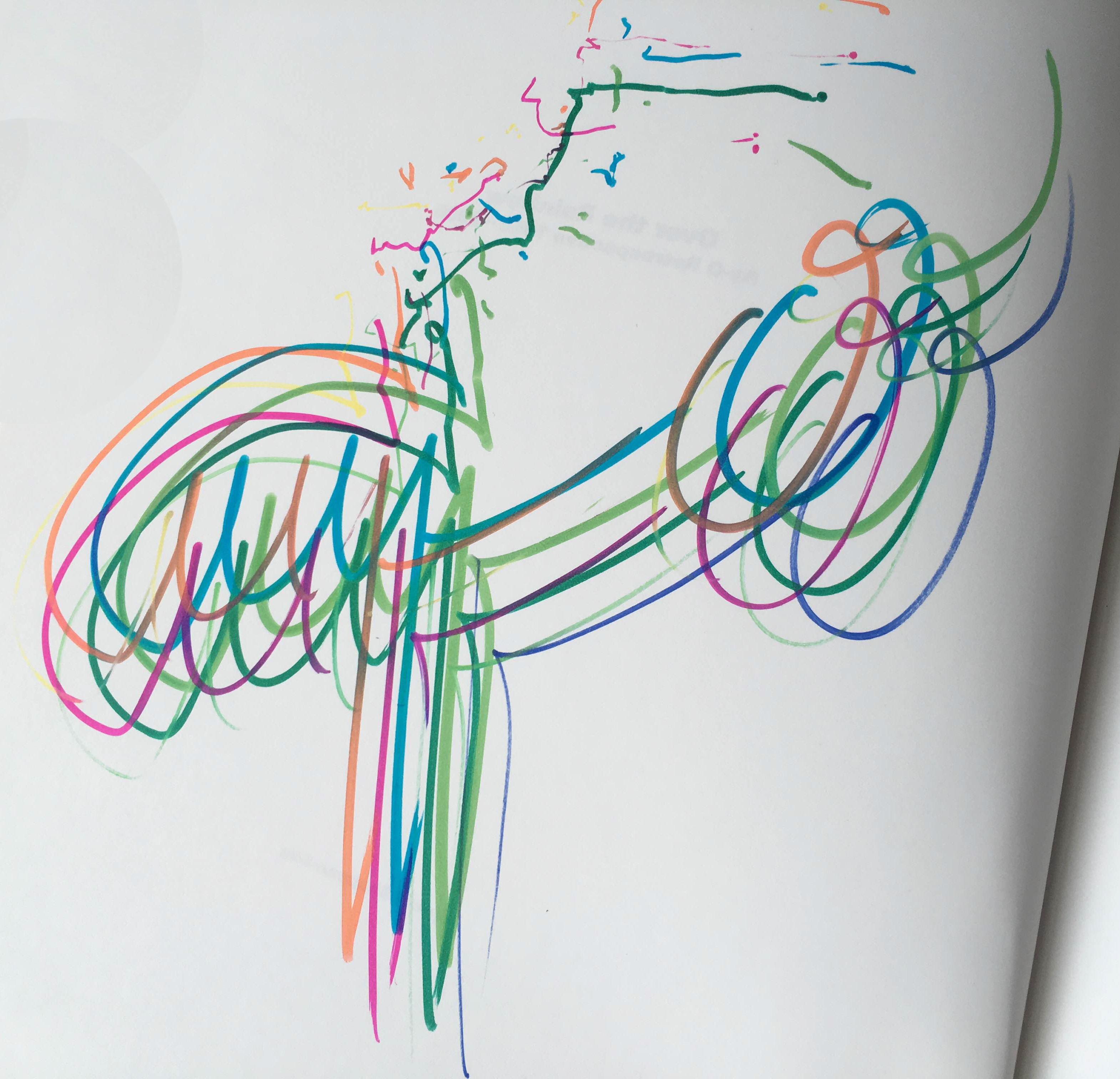 This is a signature of Ay-O. This is the rainbow signature.